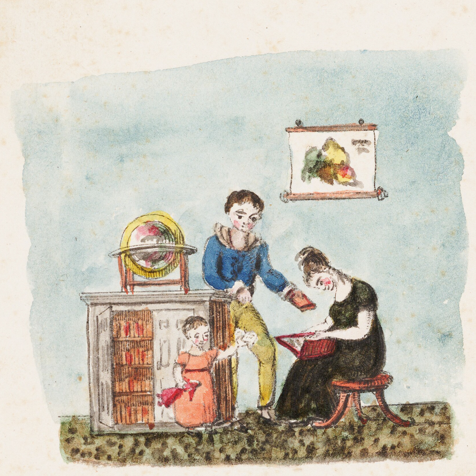 Illustration to verse 6 of the children's poem Old Santeclaus with Much Delight